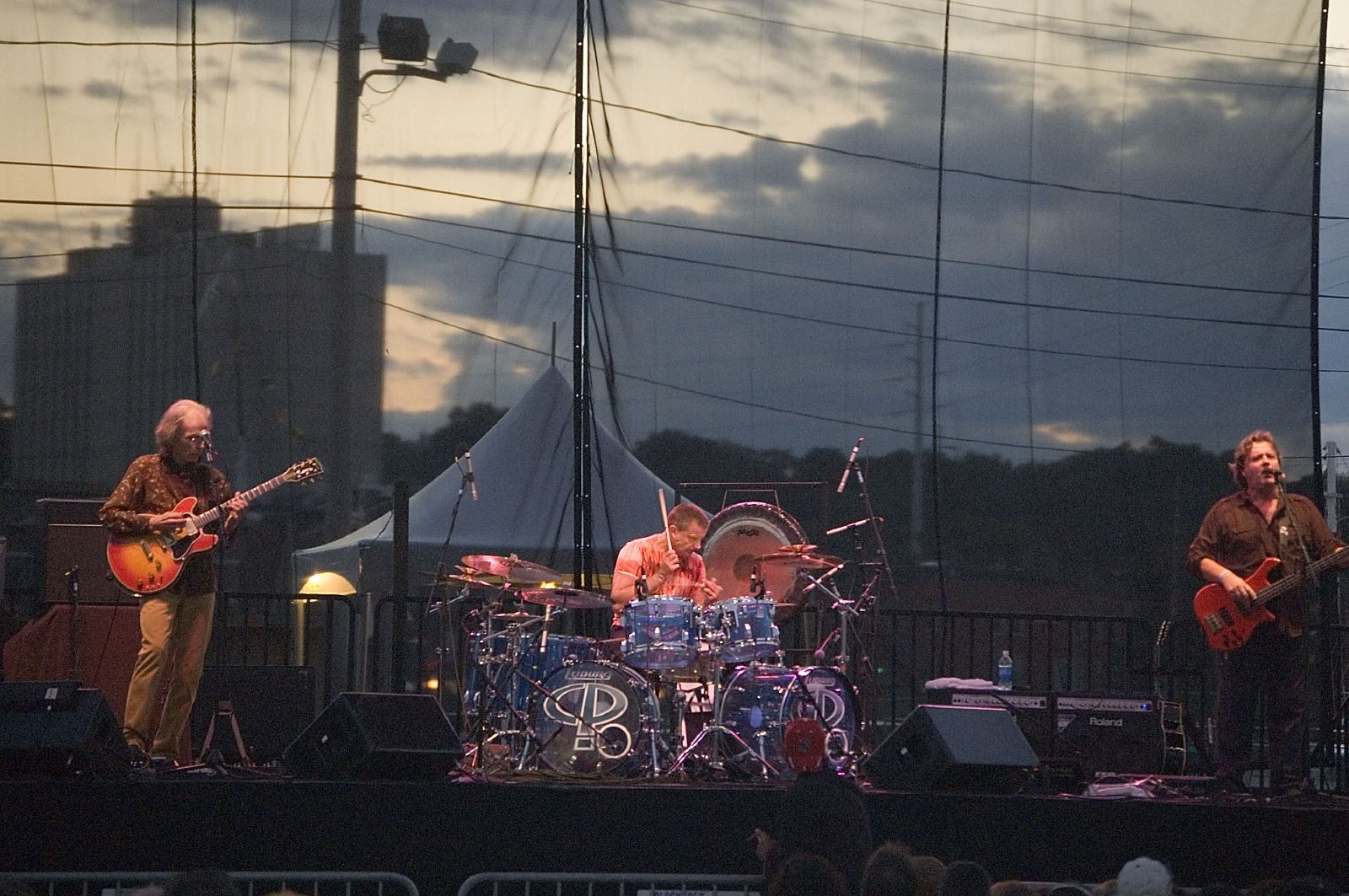 Asia live in Norwalk, CT, 2006